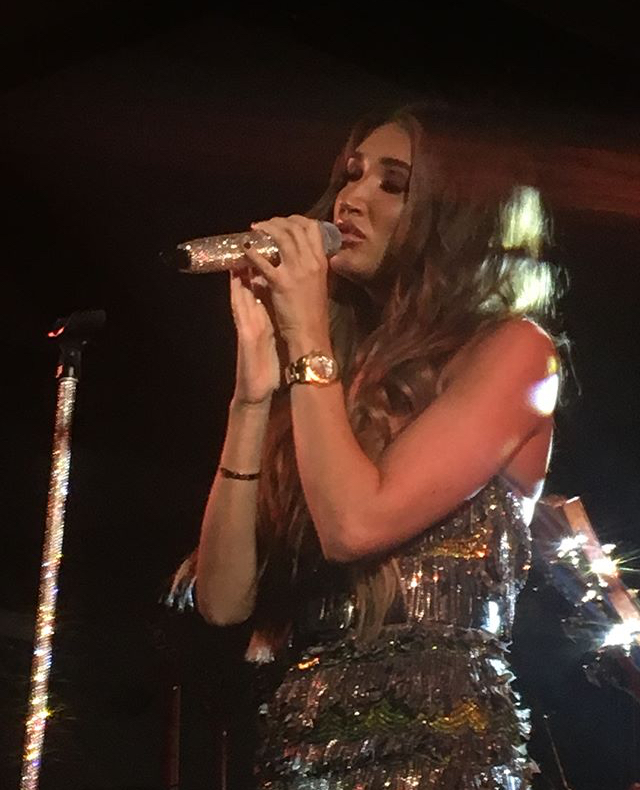 Megan McKenna performing in 2017